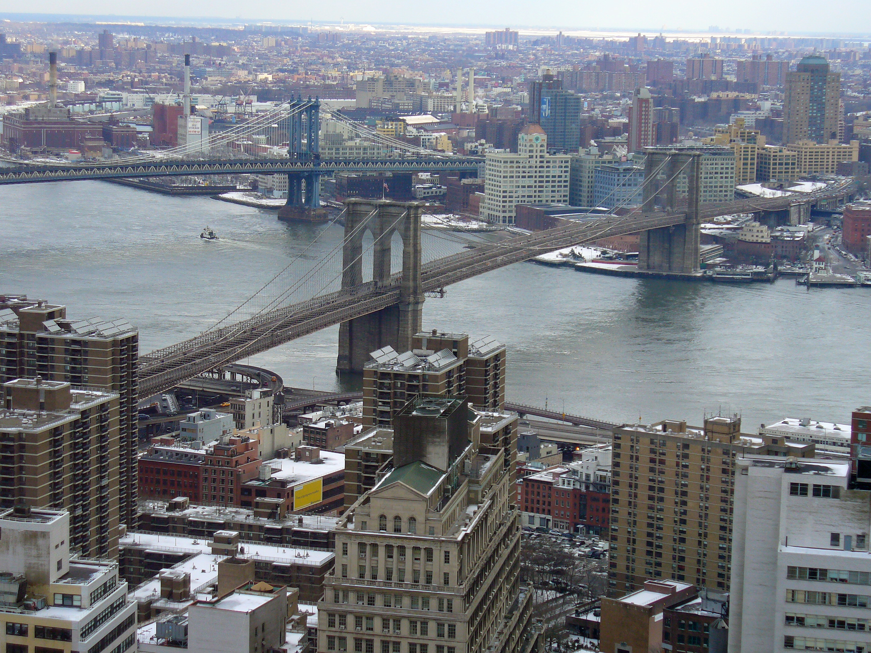 Brooklyn Bridge by David Shankbone